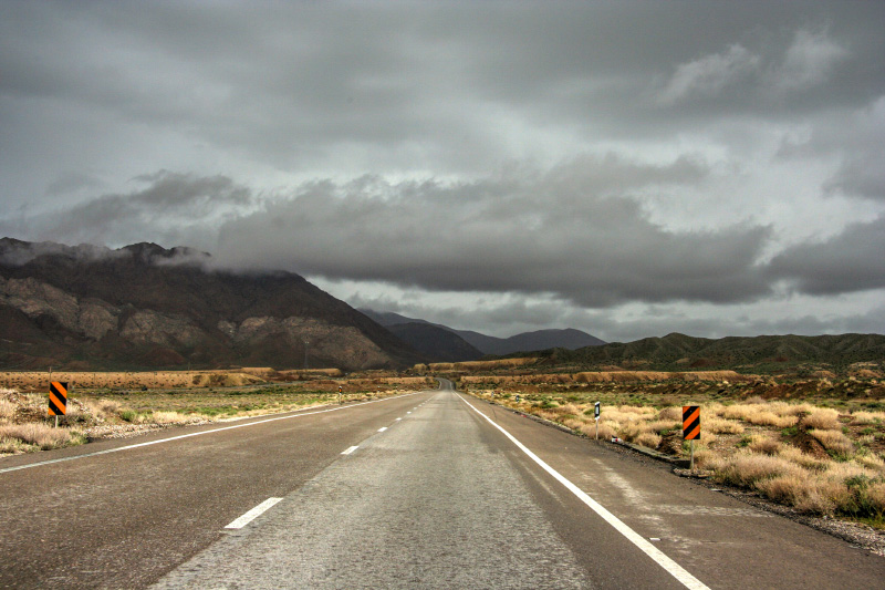 جاده حاجی آباد سیرجان عکس: امیررضا توسلی